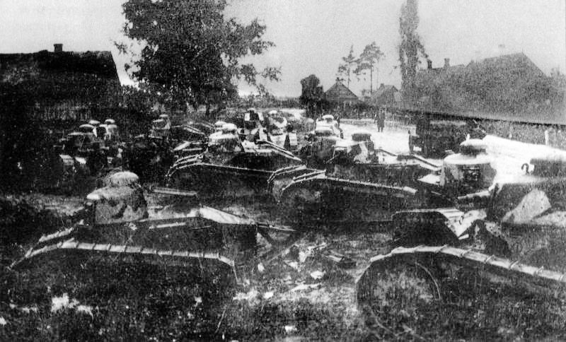 Polish FT-17 tanks of the Polish 1st Tank Regiment during the Battle of Dyneburg